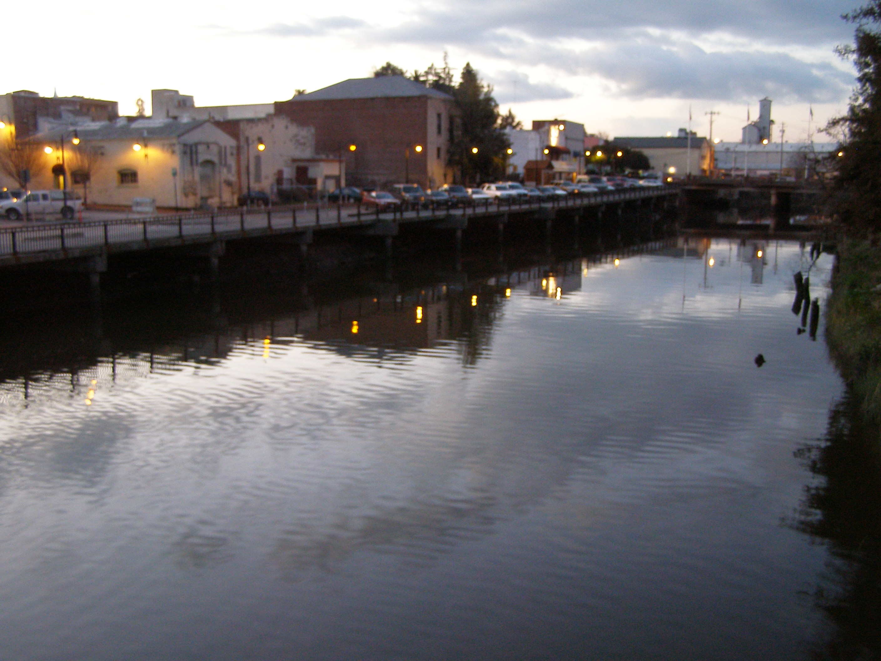 Looking north along the Petaluma River from downtown wooden pedestrian bridge